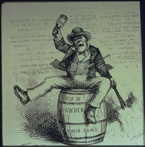 Anti-Irish political cartoon titled "The Usual Irish Way of Doing Things" by Thomas Nast (1840–1902), published in Harper's Weekly on 2 September 1871. Captions on walls: "Everything obnoxious to us shall be abolished, Our liberty has been taken away (killing Orangemen), We must rule." Caption on barrel: "Uncle Sam's Gun Powder."